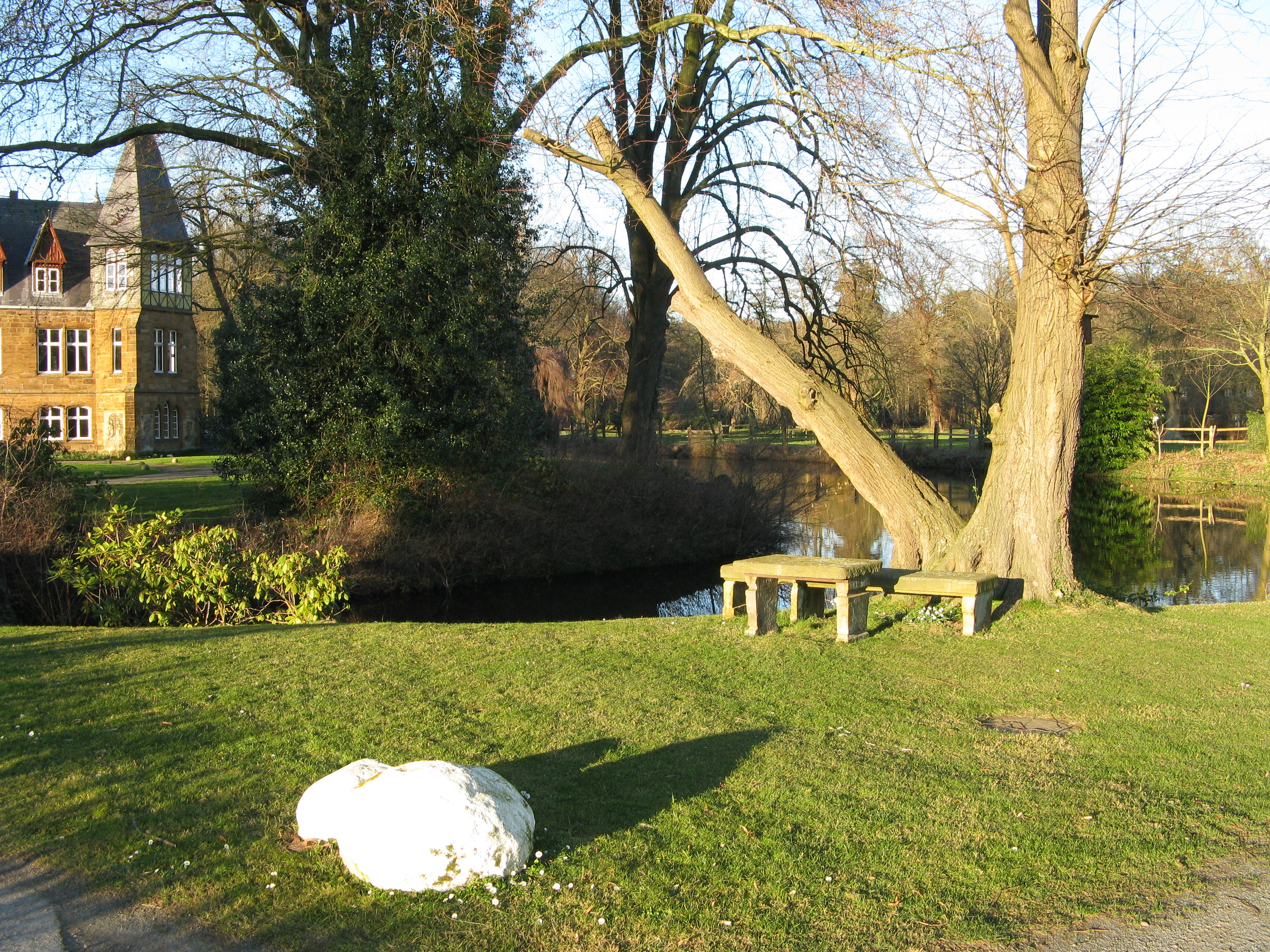 This is a photograph of an architectural monument. It is on the list of cultural monuments of Preußisch Oldendorf